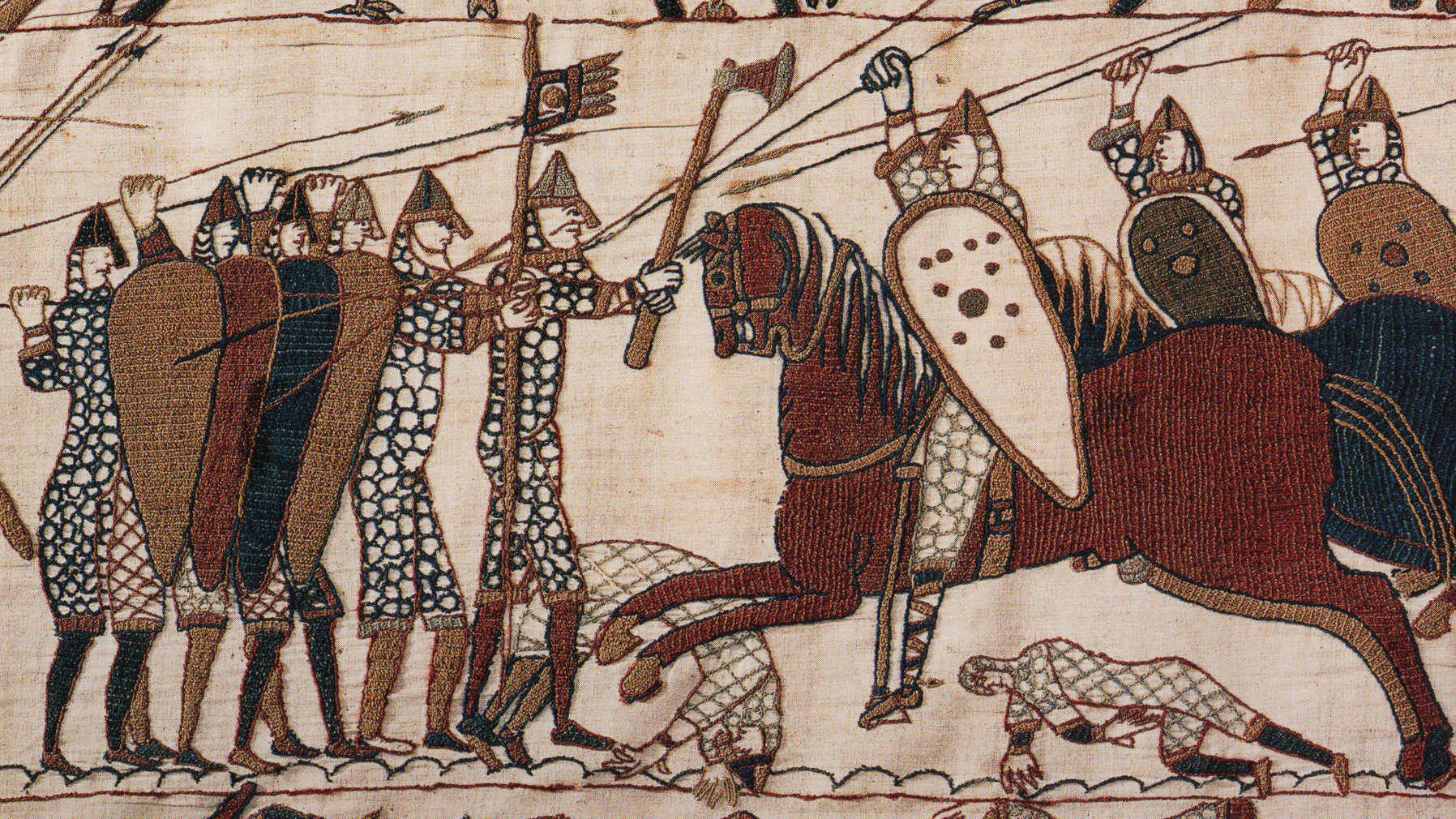 Part of scene 52 of the Bayeux Tapestry. This depicts mounted Normans attacking the Anglo-Saxon infantry.